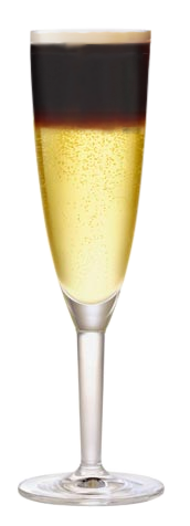 A glass of Black Velvet cocktail